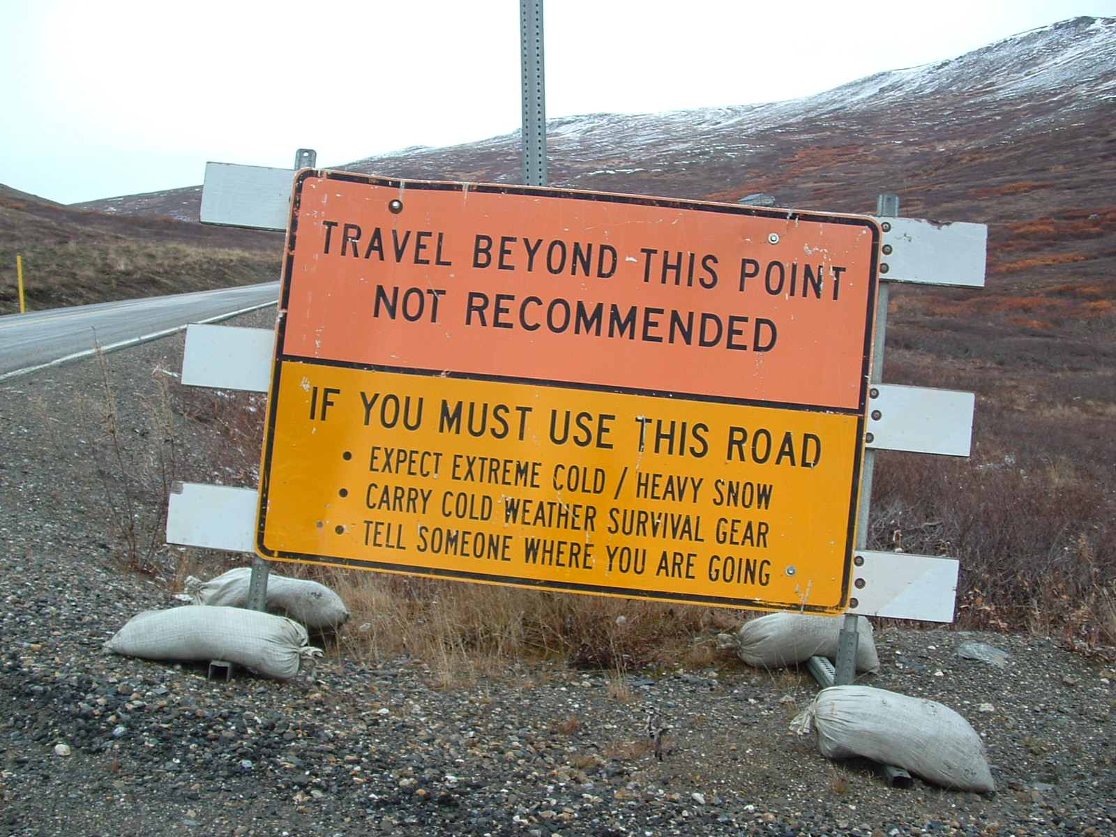 Road sign, 2 miles north of Nome, Alaska